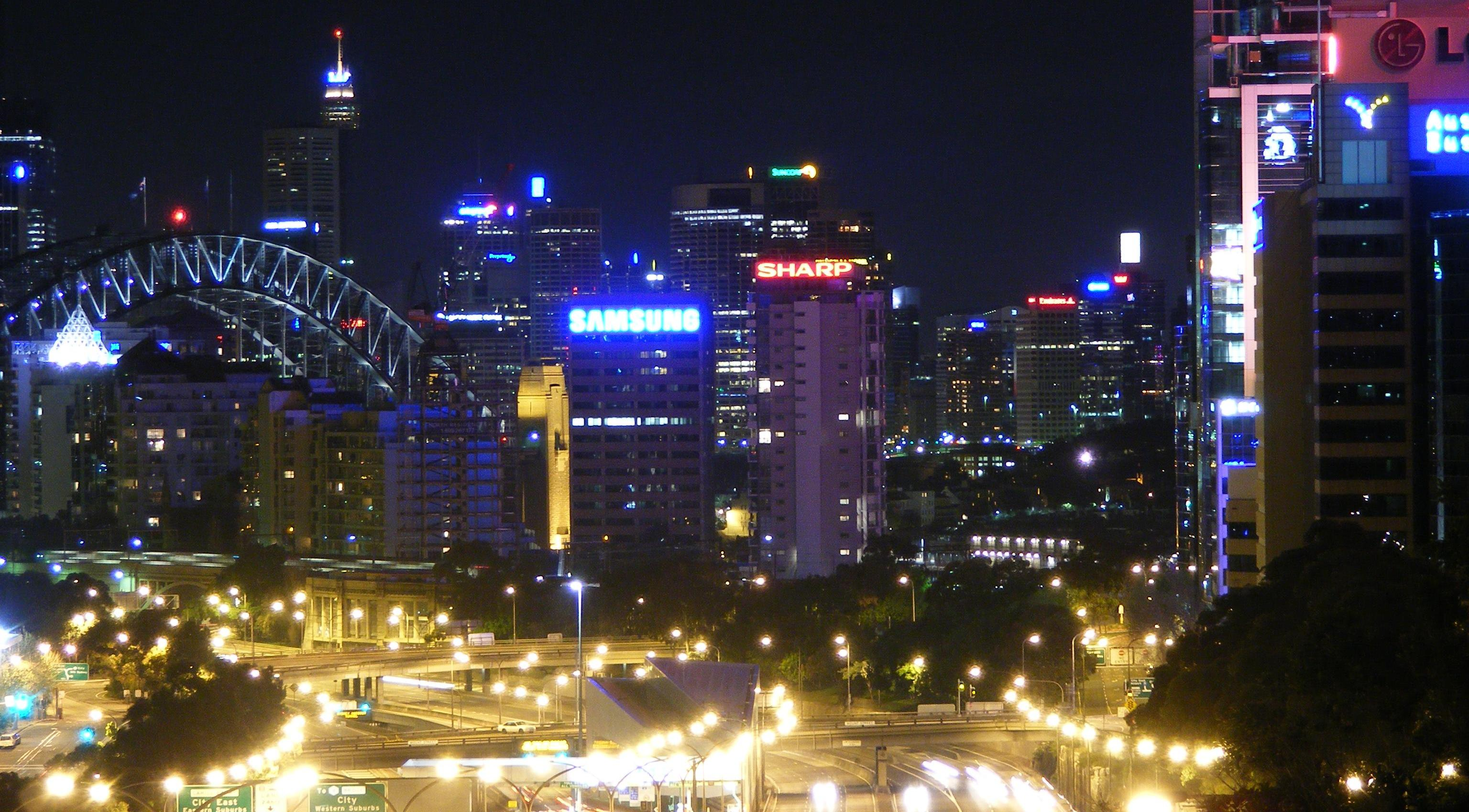 North Sydney at night